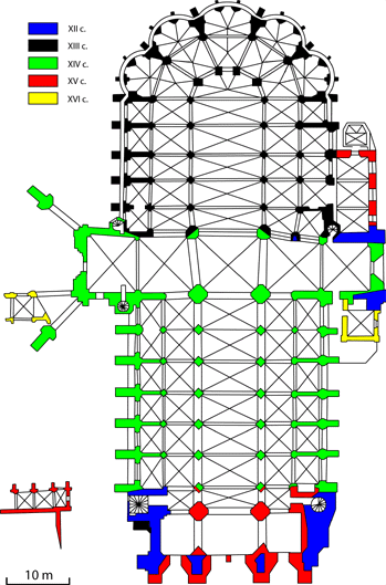 Ground plan of the Cathedral of Tours in France.